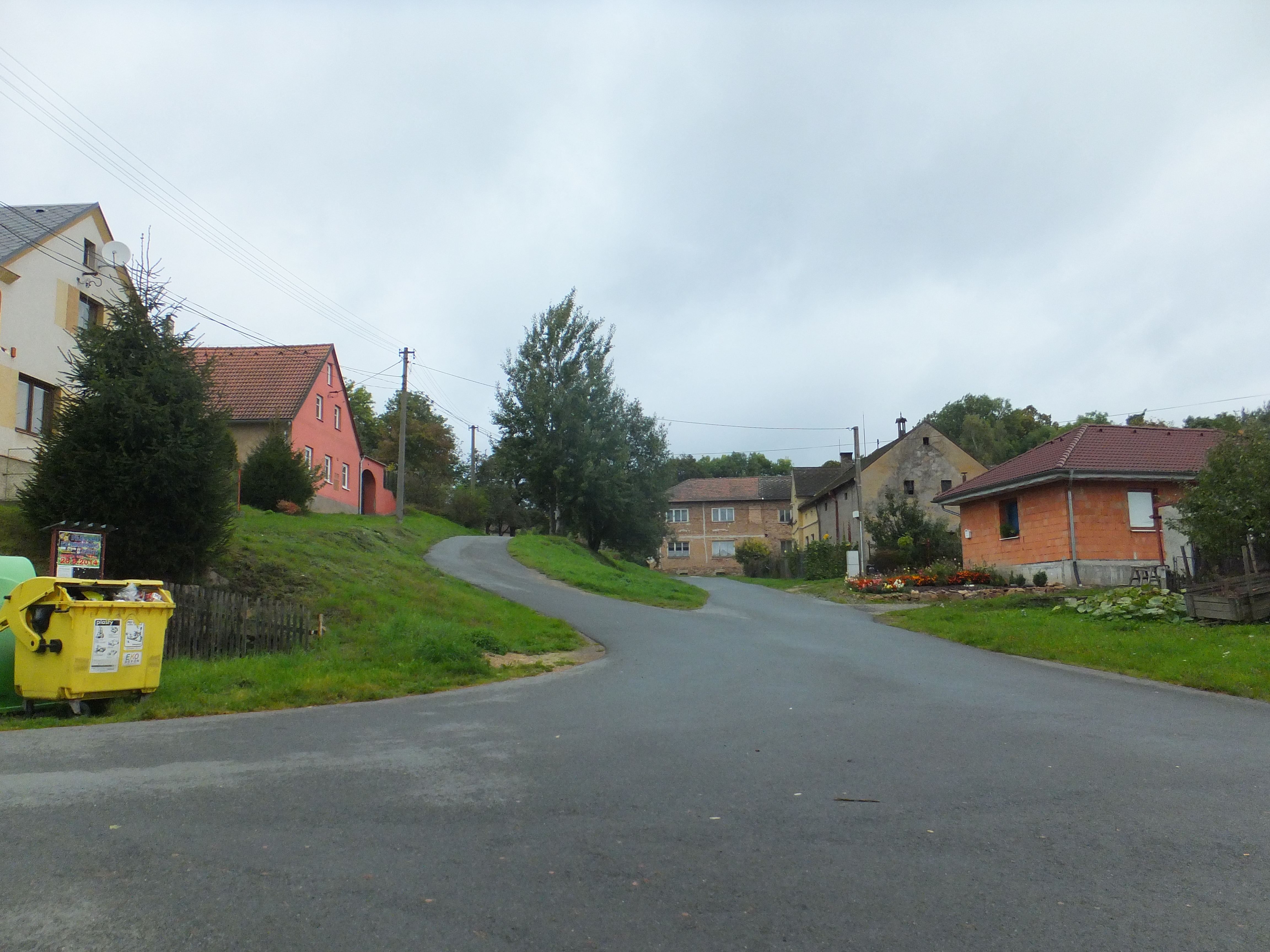 The northern part of the square in Otín in Tachov district